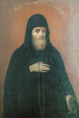 St. Pimen. Icon. Kiev. XIX century. Kiev-Pechersk Lavra. The icon is located at the shrine of the relics of the saint.